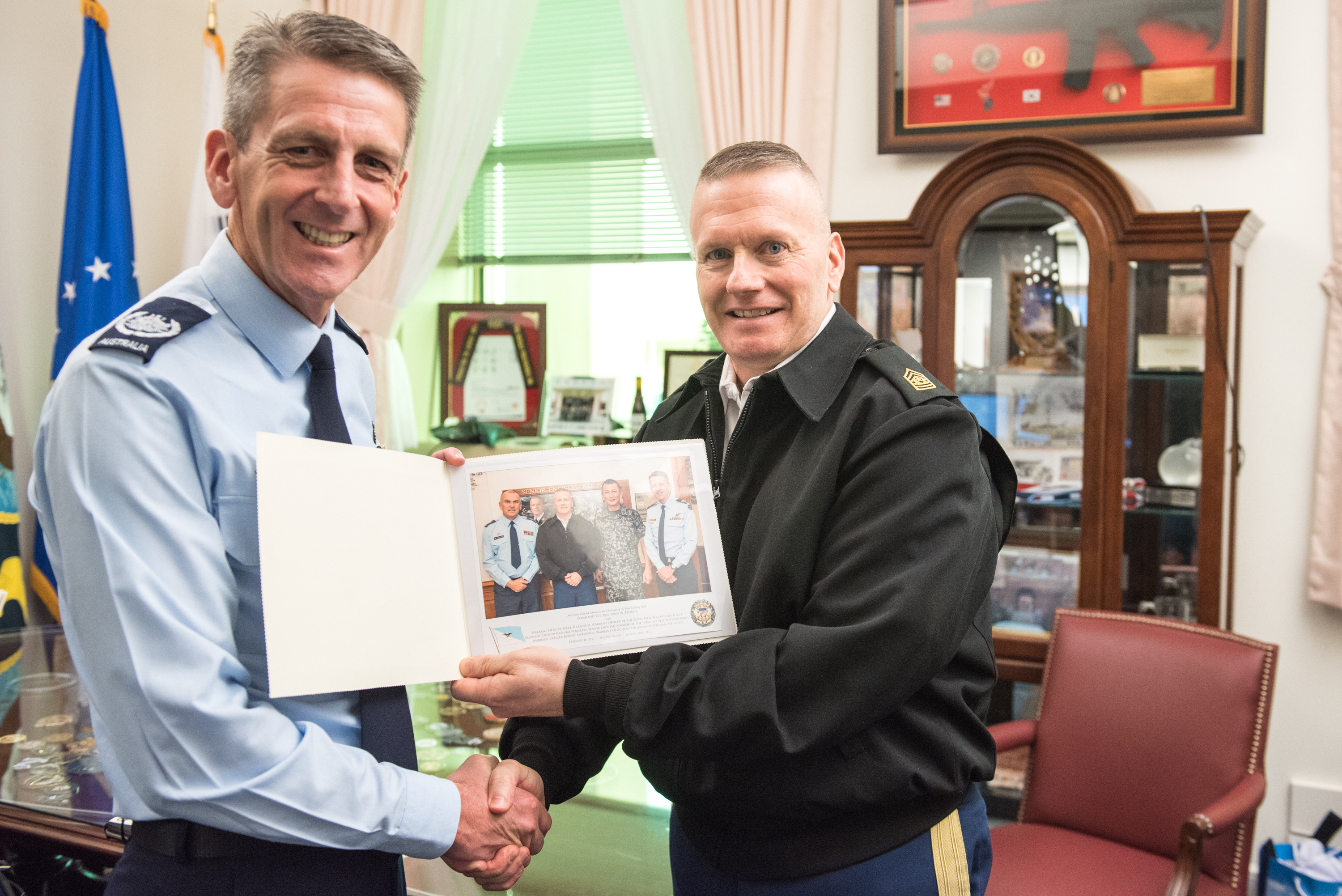 U.S. Army Command Sgt. Maj. John W. Troxell, Senior Enlisted Advisor to the Chairman of the Joint Chiefs of Staff, meets with Warrant Officer Katsumi Yamazaki, Senior Enlisted Advisor of the Japan Air Self-Defense Force, Warrant Officer Mark Harwood, Warrant Officer of the Royal New Zealand Air Force, and Warrant Officer Robert Swanwick, Warrant Officer of the Royal Australian Air Force at the Pentagon, Feb. 16, 2017. (DoD Photo by U.S. Army Sgt. James K. McCann)